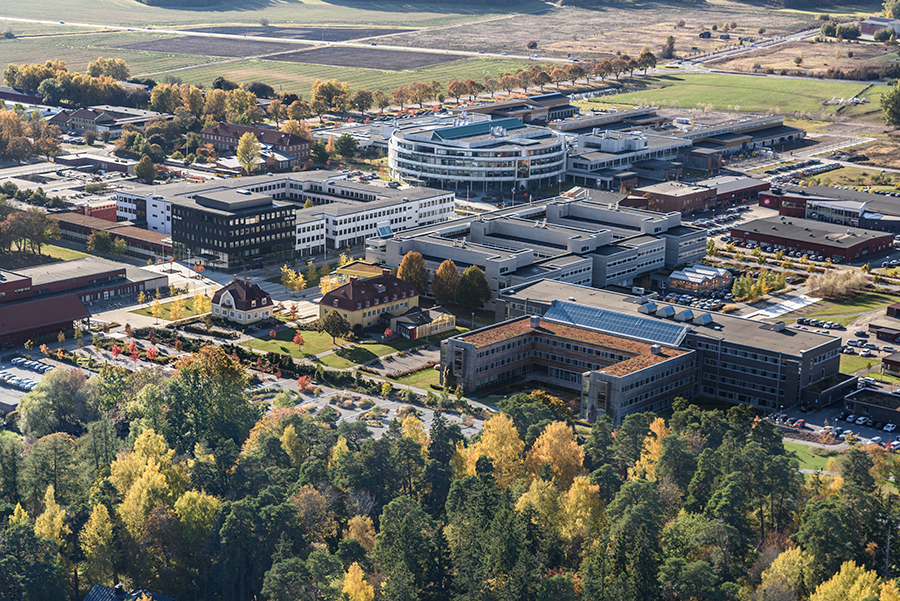 An areal photo of SLU in Uppsala/Ultuna. Photo by the photographer Mark Harris.